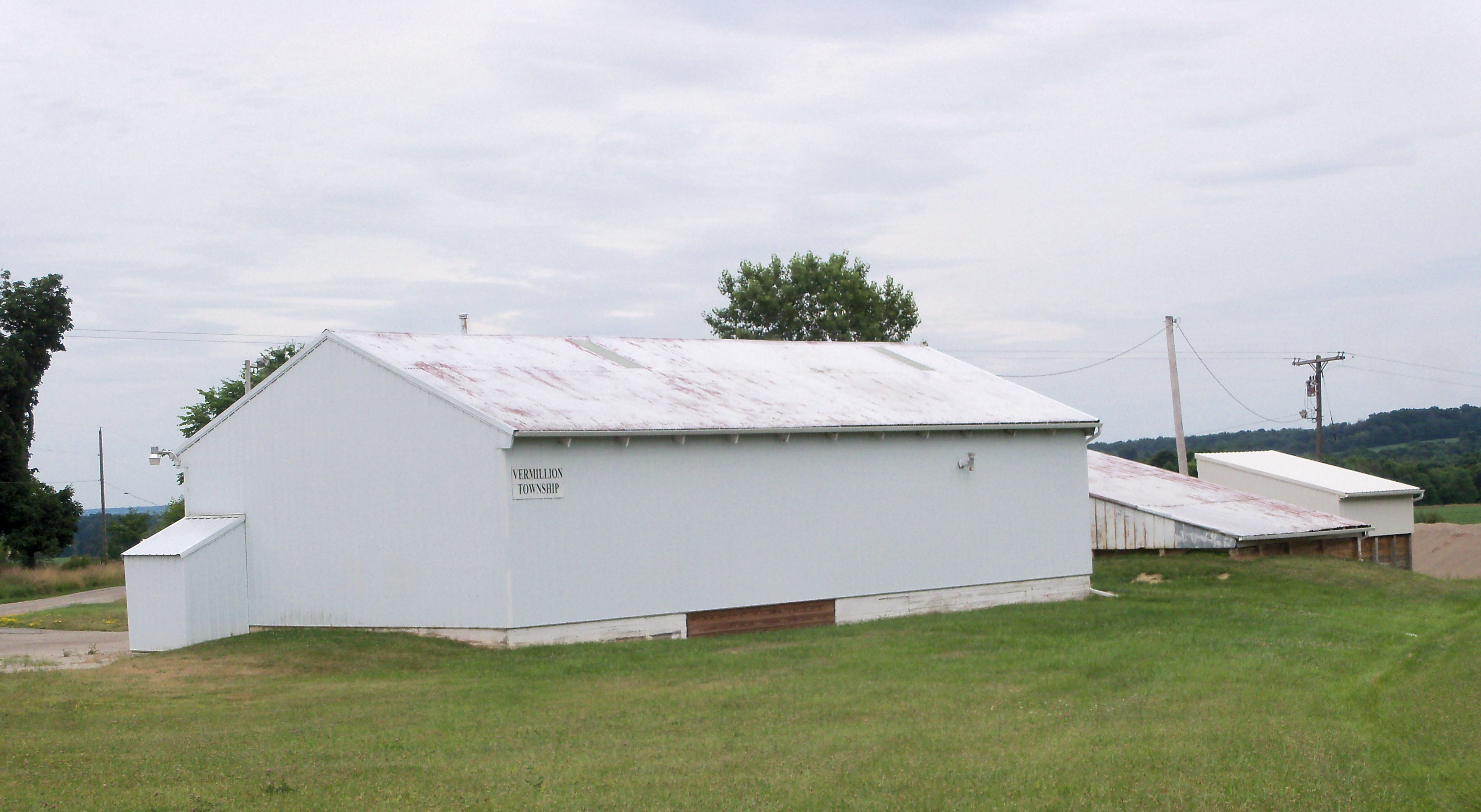 Vermillion Township, Ashland County, Ohio Meeting House and maintenance garage east of Hayesville on Rt 179